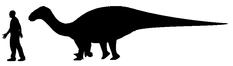 Size comparison between the basal hadrosauriform ornithopod Lurdusaurus (2 m tall) and the human Andrew A. Farke (1.8 m tall).